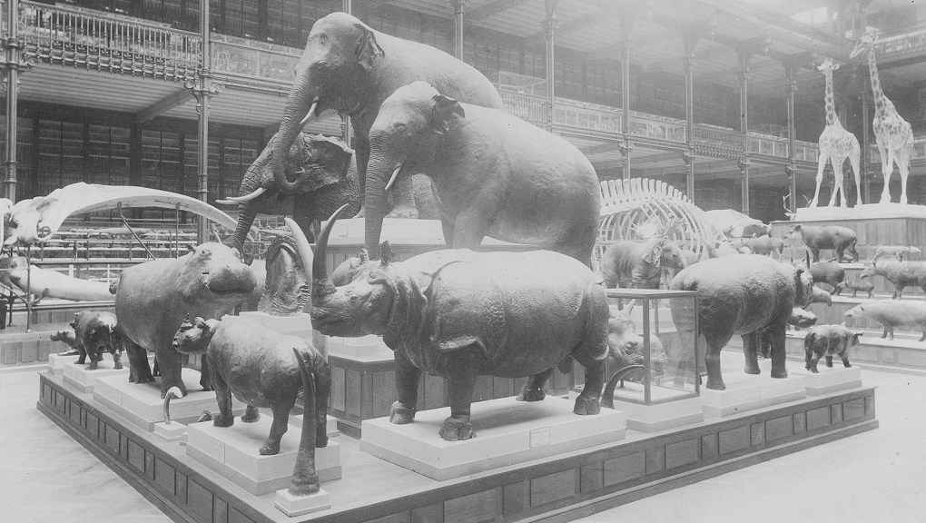 Galerie de Zoologie of the MNHN in 1892.